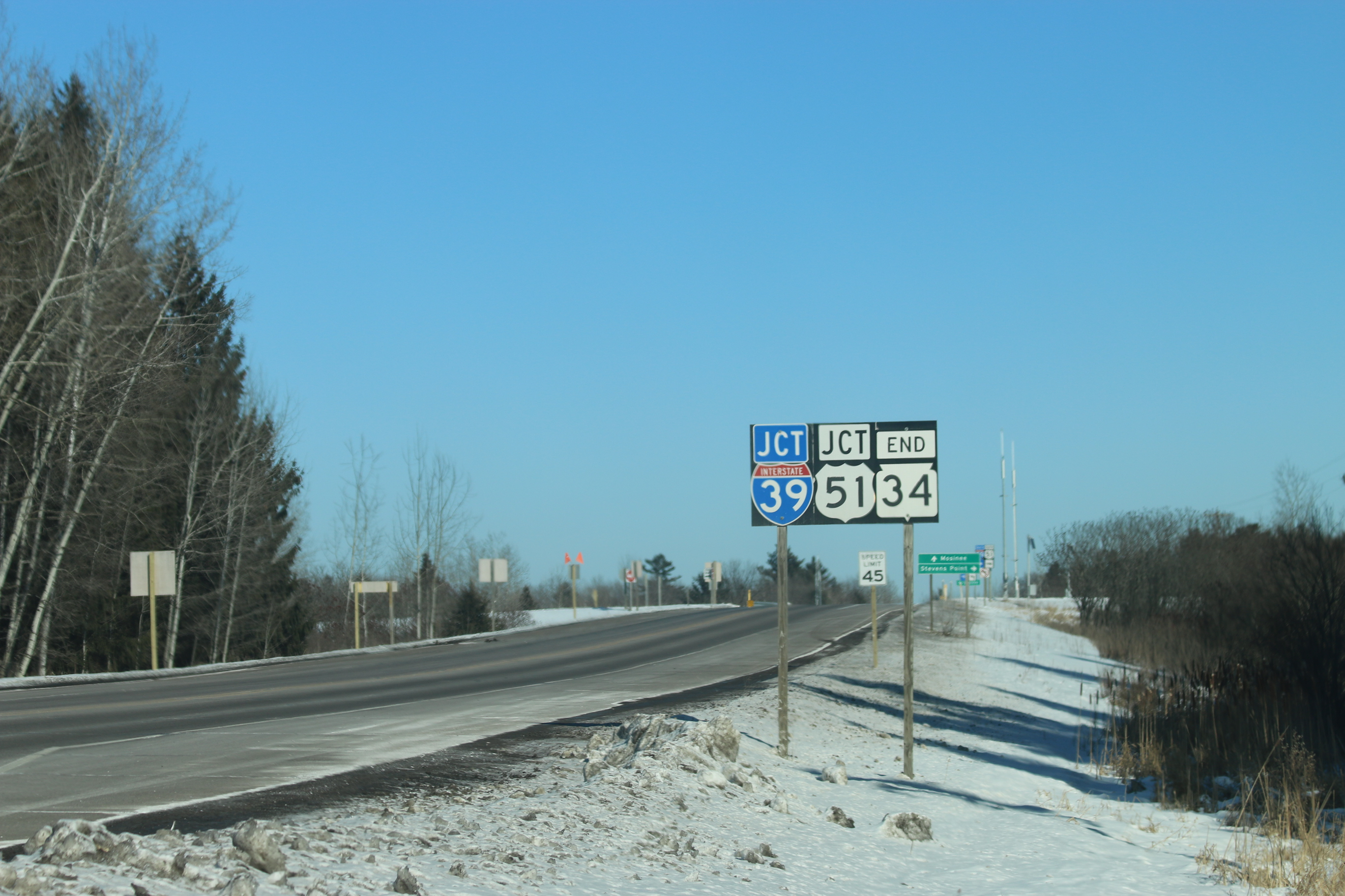 The northern terminus for Wisconsin Highway 34 at Knowlton, Wisconsin (I39).